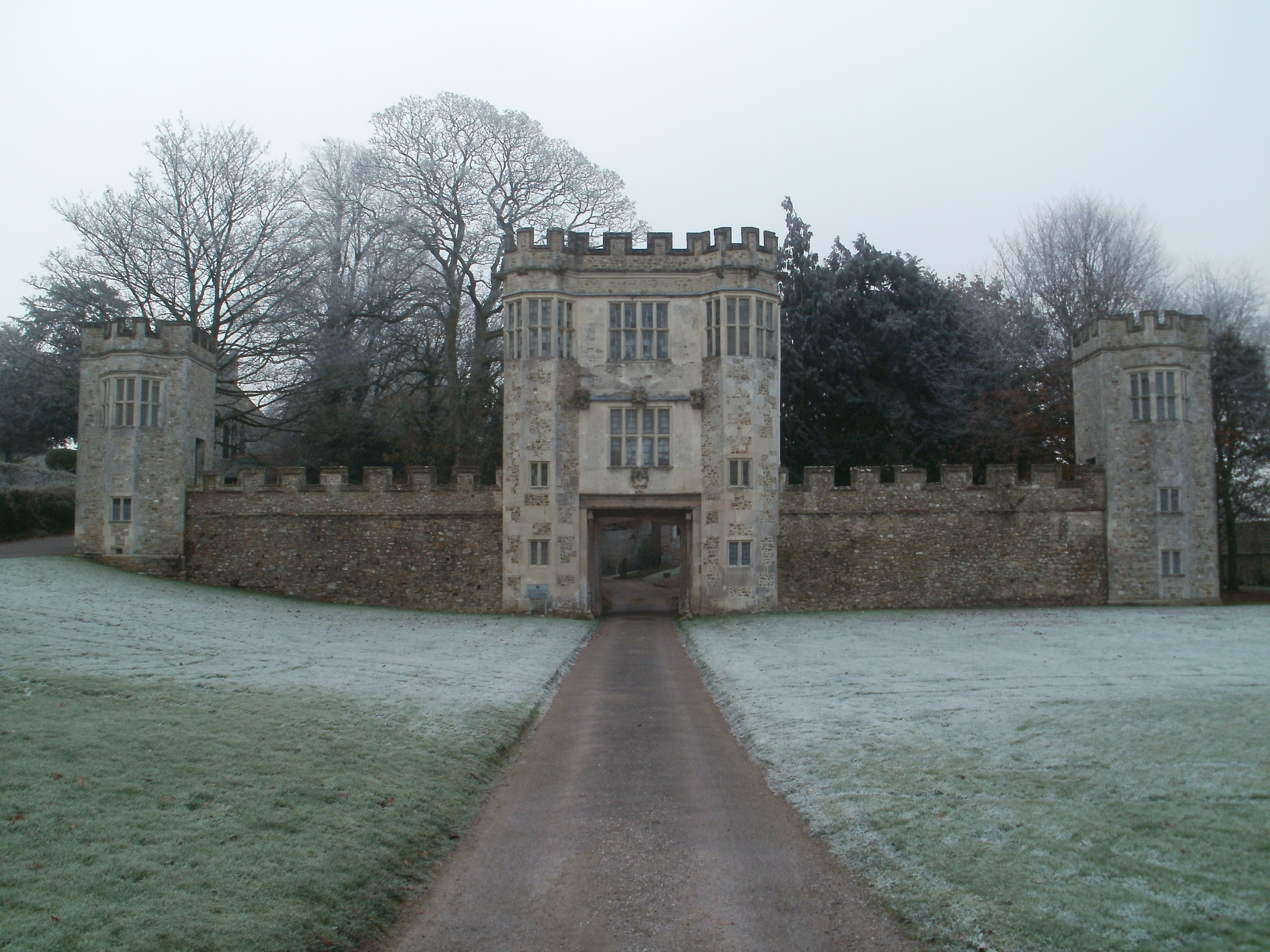 The gatehouse at Shute Barton, now a Landmark Trust holiday cottage. Picture taken in the snow of early December 2010.